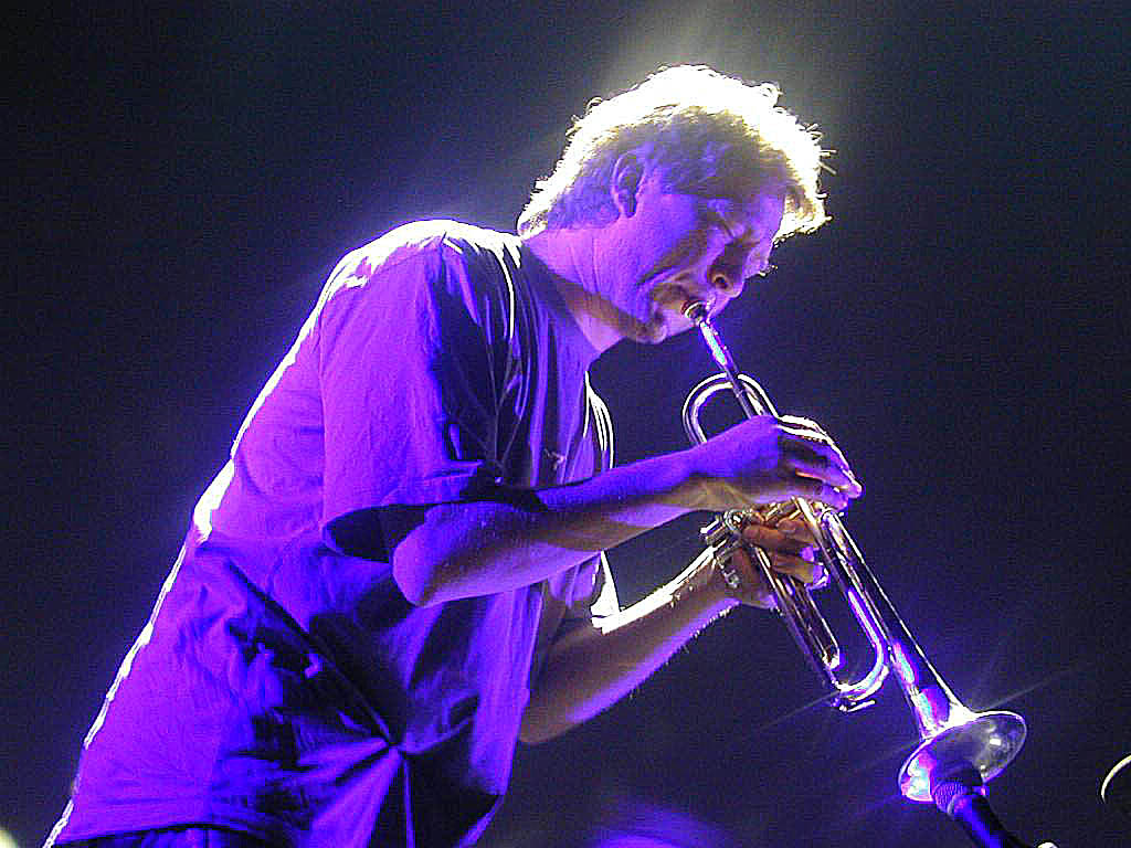 Nils Petter Molvær, playing his trumpet at Global Tempera 2001, in the old Fokus Kino cinema building in Tromsø, Norway. Photo: Krister Brandser